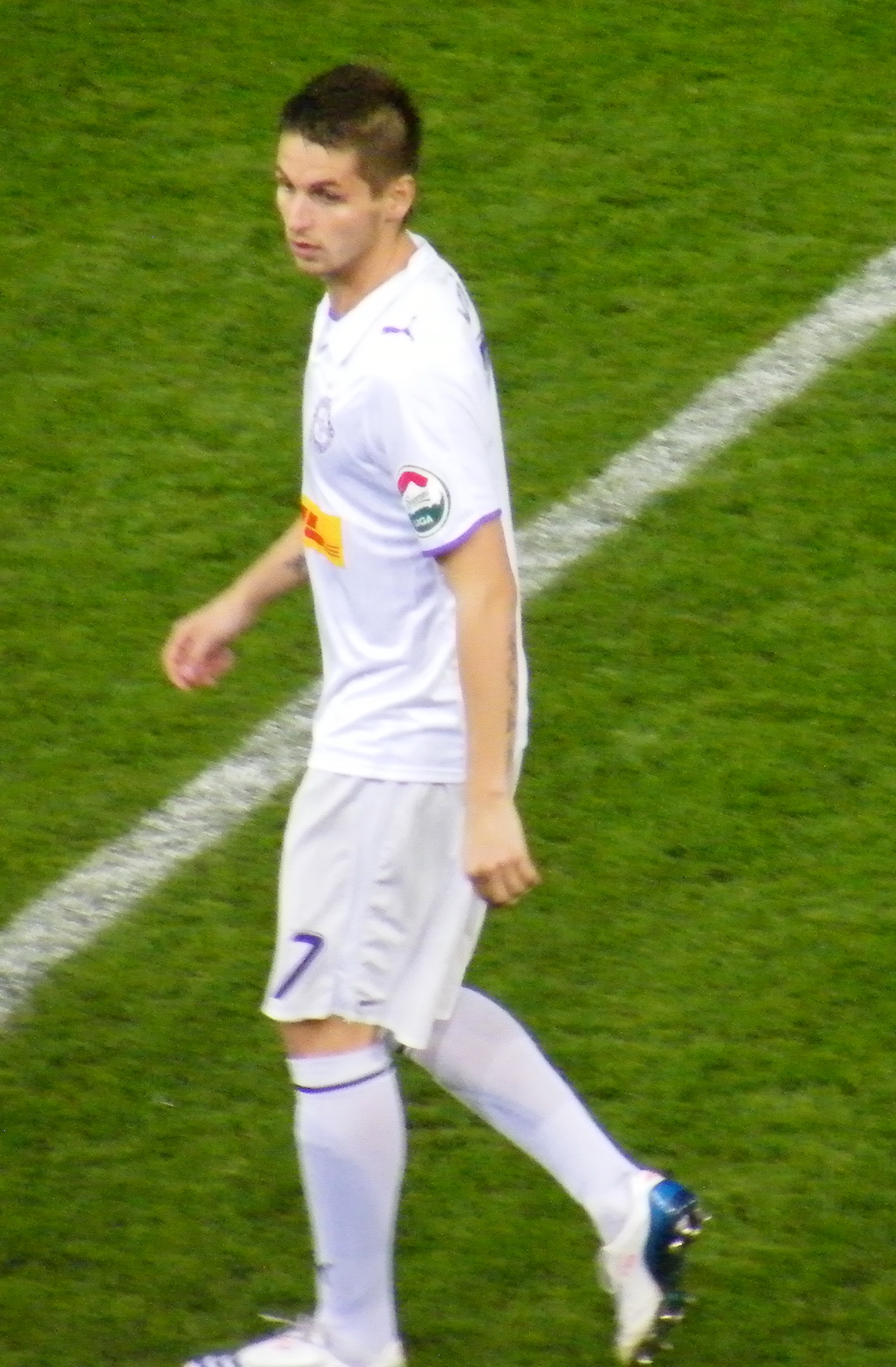 Mario Božić Bosnian football player